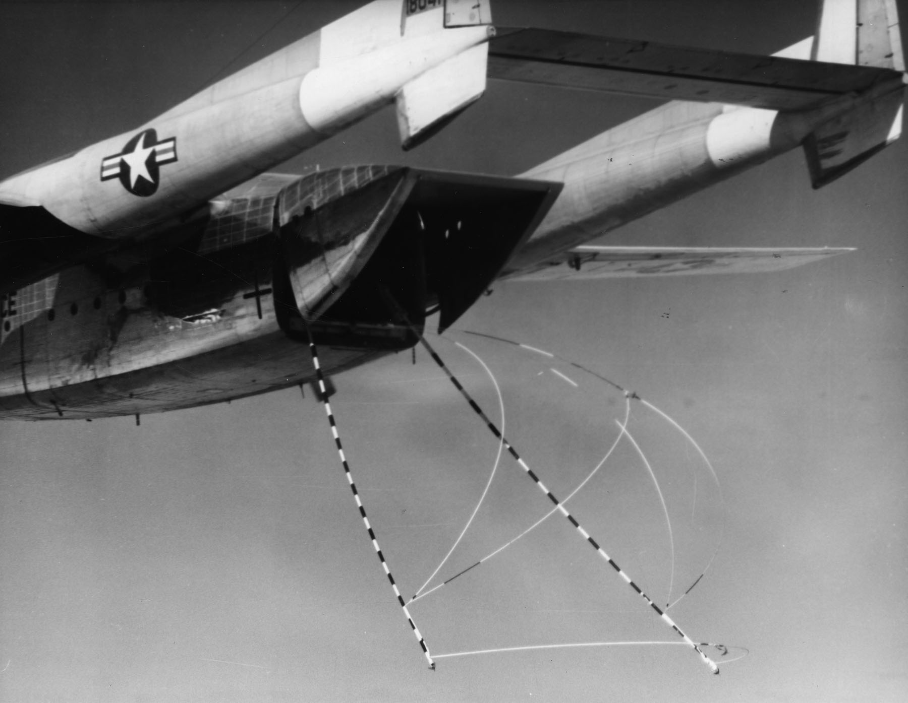 Satellite catching gear deployed from an Air Force C-119J. These aircraft recovered CORONA satellite film capsules beginning in 1960, and later gave way to the faster, more powerful C-130 Hercules aircraft.